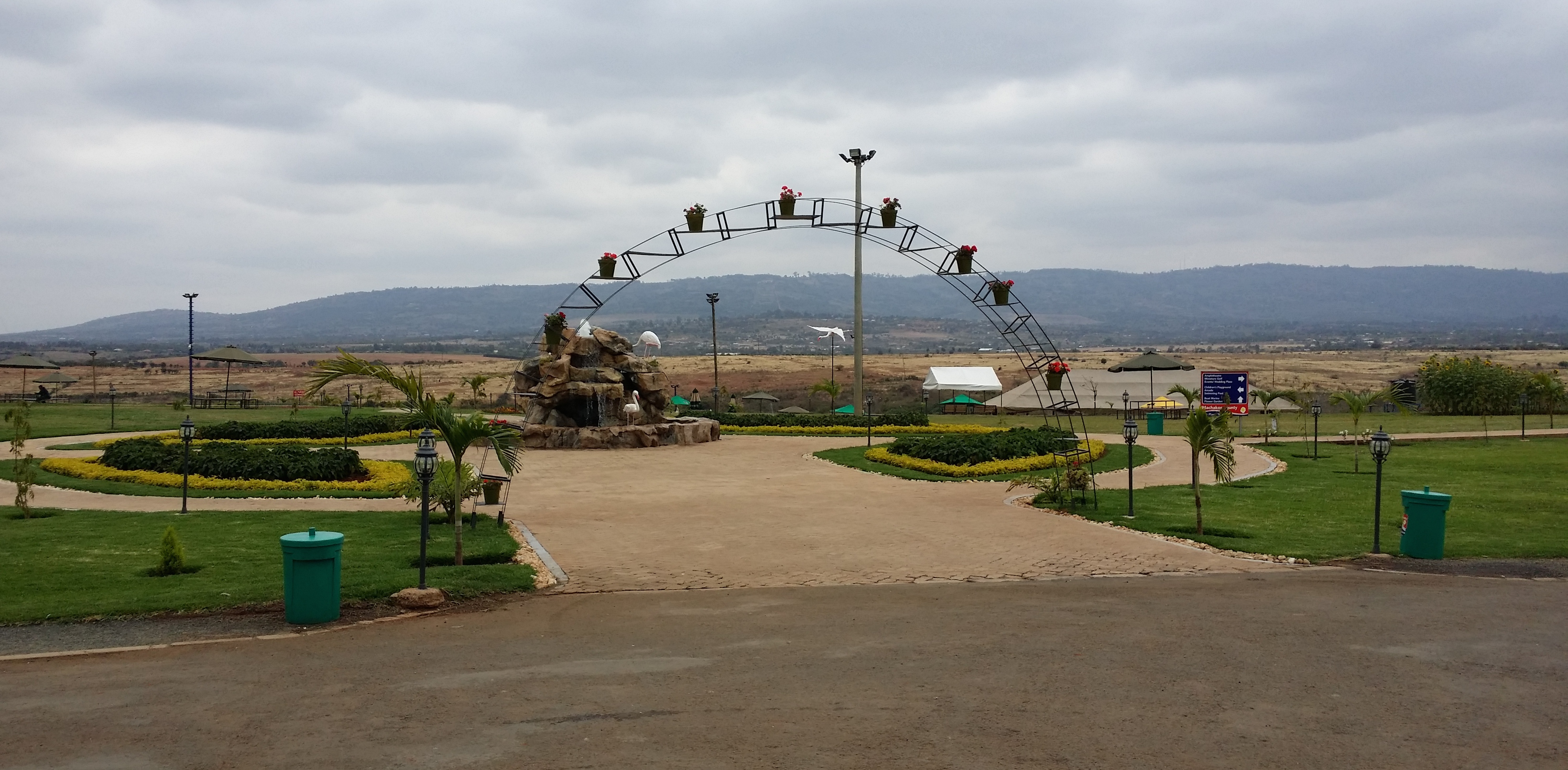 Section of Machakos People's Park Kiswahili: Sehemu ya Bustani ya Wananchi wa Machakos